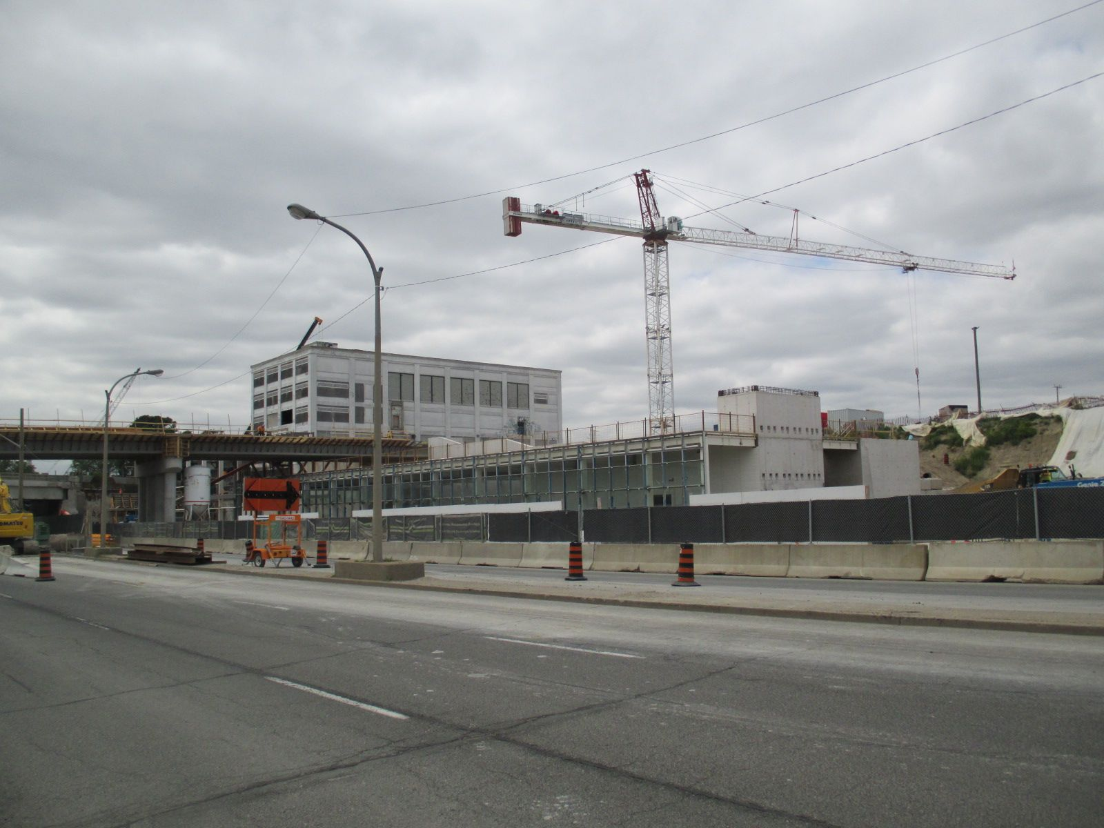 Mount Dennis station construction: Line 5 station, new Photography Drive bridge and Kodak building